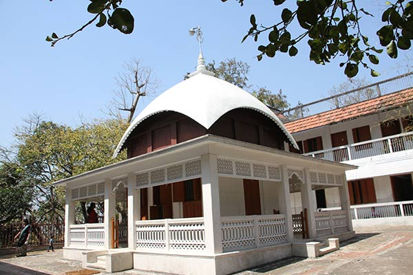 Mahasamadhi place in Jagatpur Ashram, Bangladesh